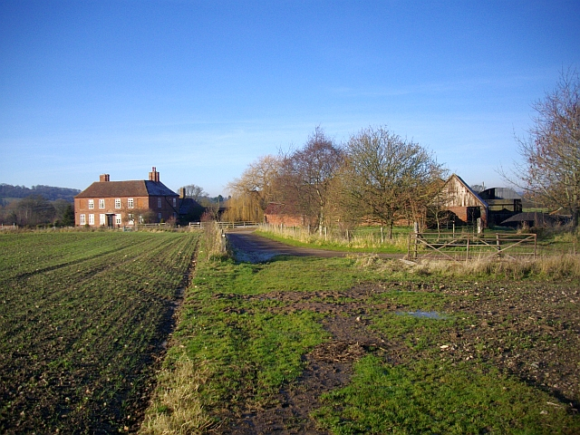 Brockbury Hall, Colwall The existing brick house was built by Robert Bright (1664-1749) but has an earlier core. It was refronted in 1738. A 1758 estate plan shows the house and its farm buildings within a walled garden complex.